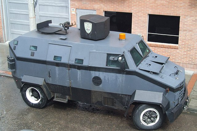 Armored vehicle made in Colombia for the Army